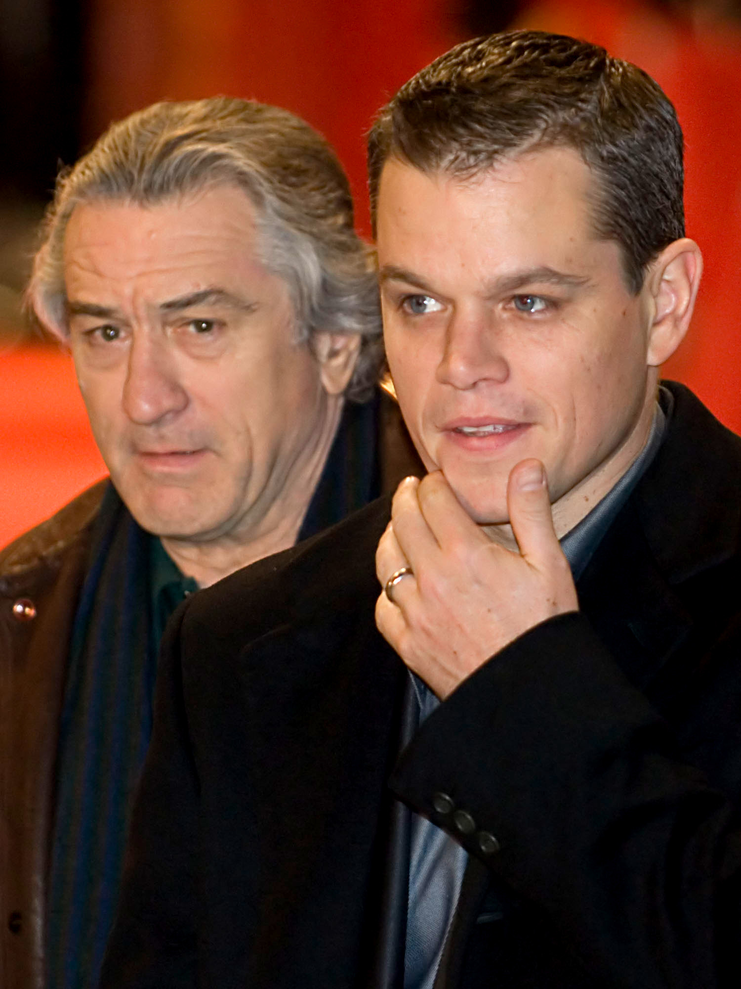 Robert De Niro and Matt Damon arriving at the premiere of The Good Shepherd in Berlinalepalast, Postdamer Platz, Marlene-Dietrich-Platz.